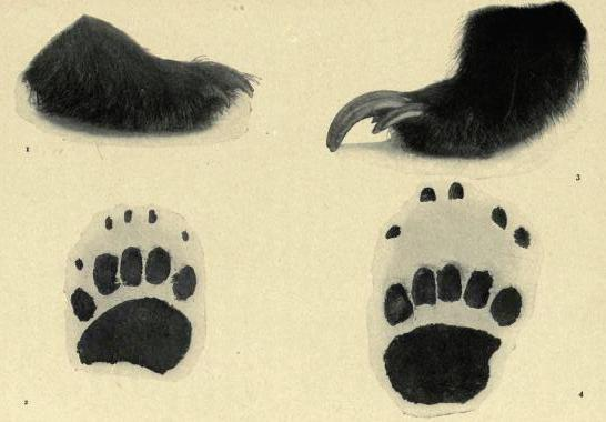 The paws and prints of an American black bear and brown bear